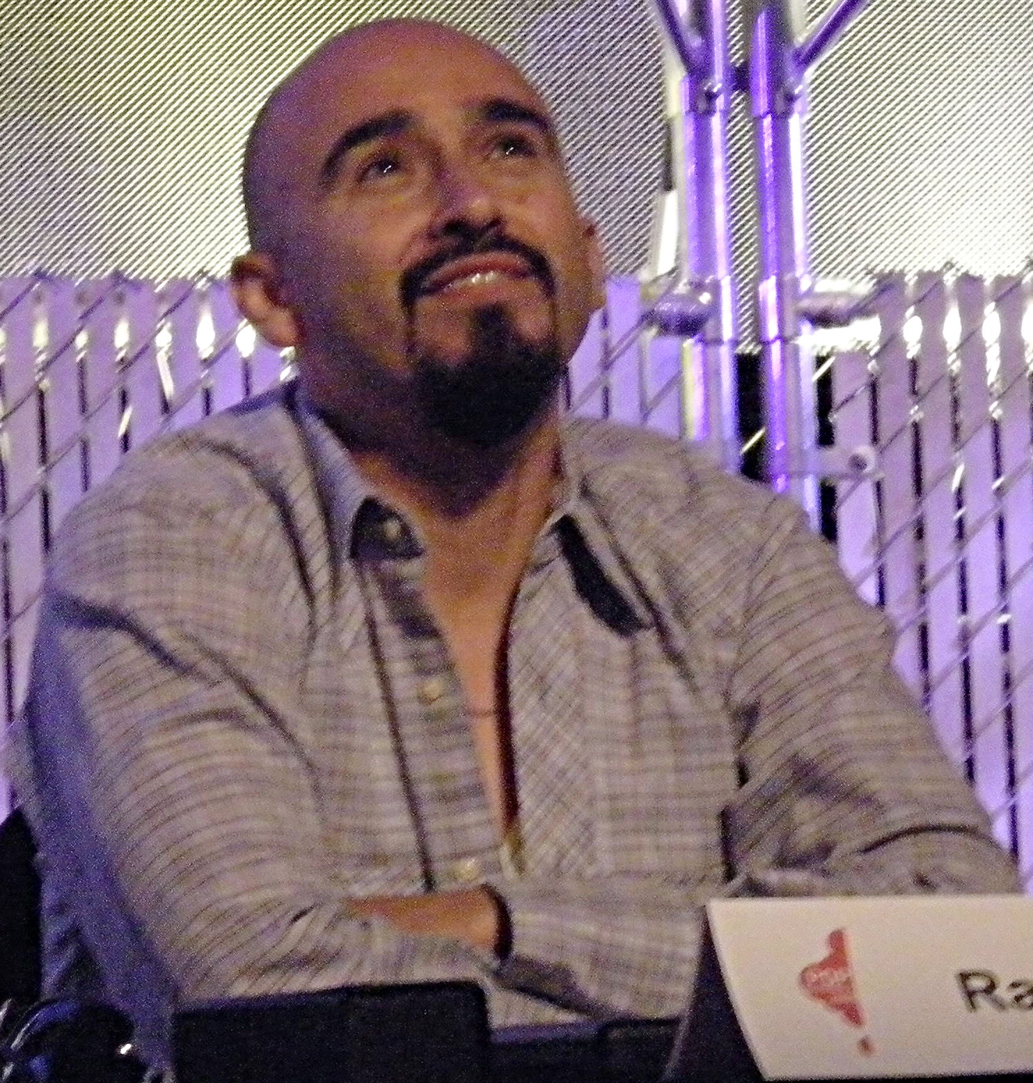 Raúl Pacheco of Ozomatli on the keynote panel of 2008 Pop Conference, Experience Music Project, Seattle, Washington. Panel was called "Ritmo and Blues: Hidden Histories Shaking Up 'American' Pop".